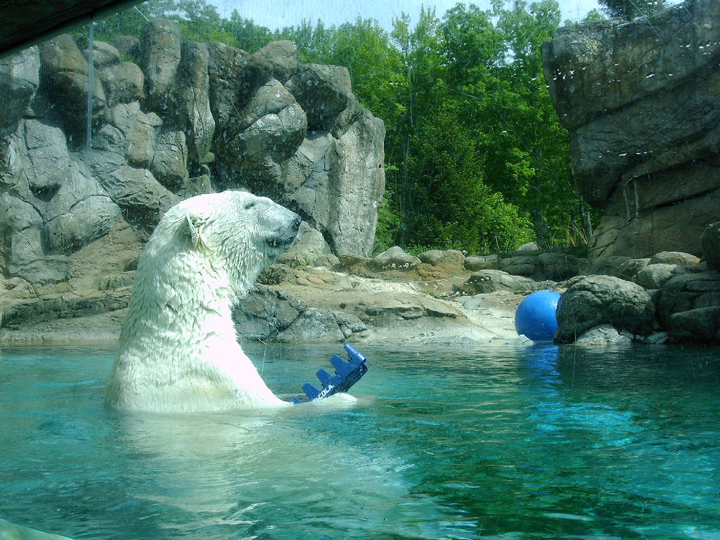 Picture of Willy, the polar bear at the North Carolina Zoological Park in Asheboro, NC. He is playing with a plastic container used to carry Pepsi cola litered bottles (Environmental enrichment)